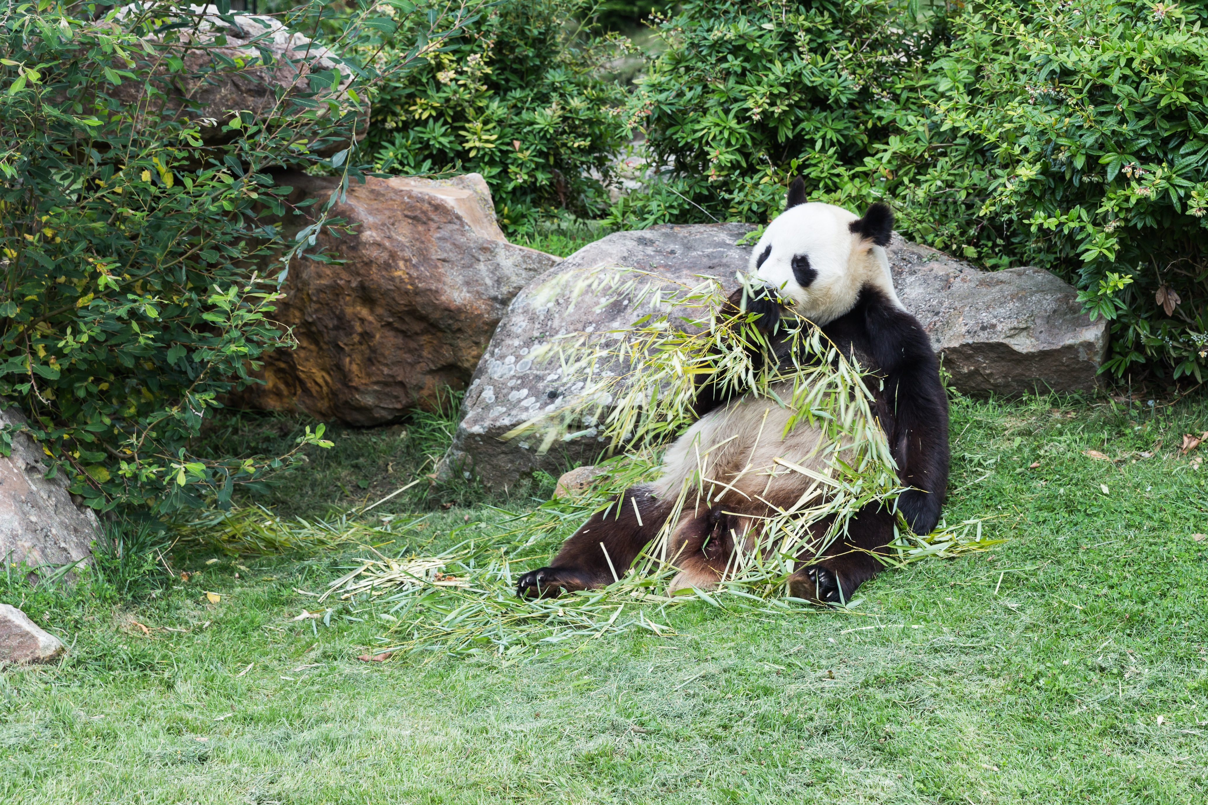 Ailuropoda melanoleuca (Giant Panda) male in the ZooParc Beauval in Saint-Aignan-sur-Cher, France.